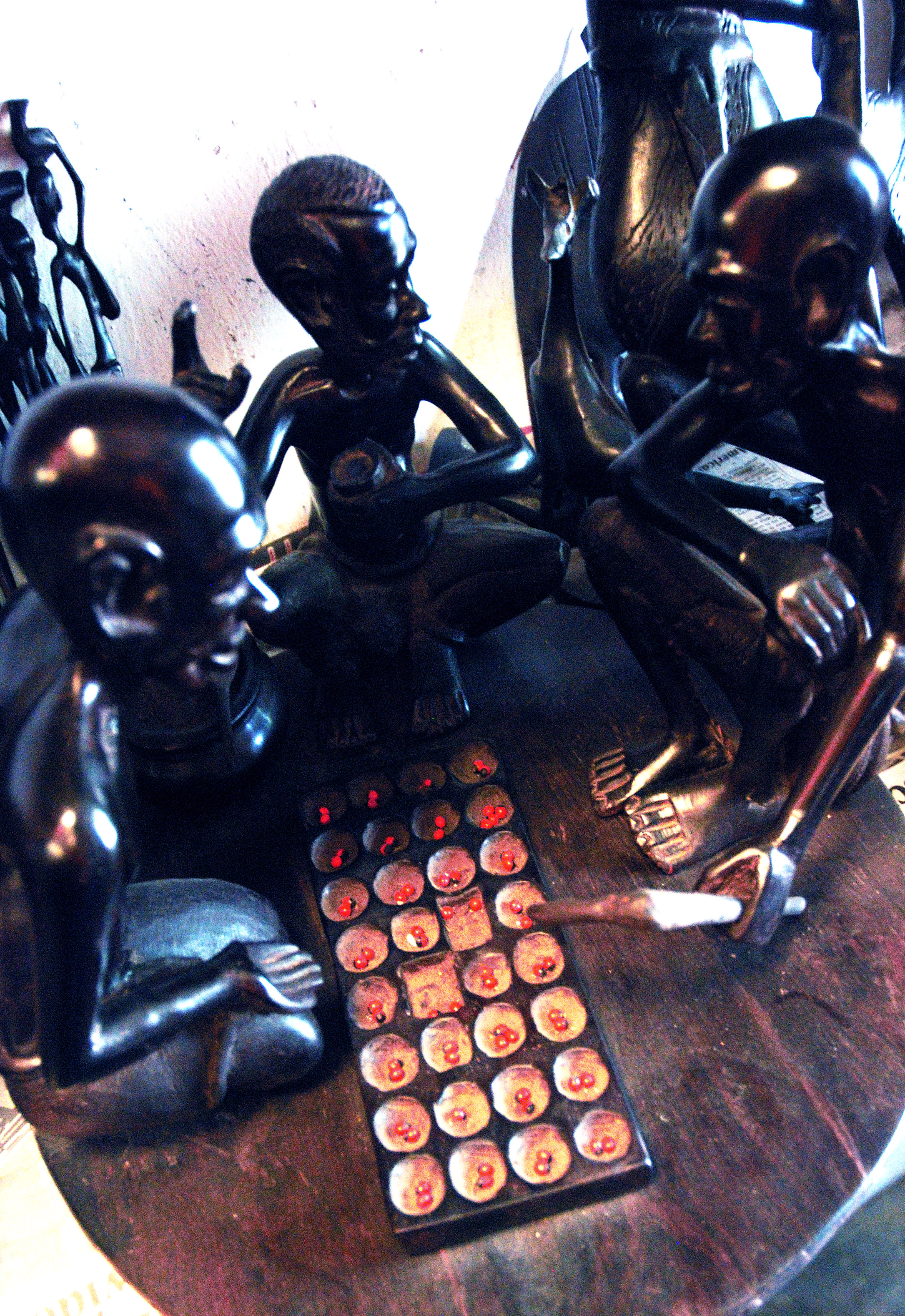 Makonde statue of Bao players, as seen in Mwenge, Dar es Salaam, Tanzania